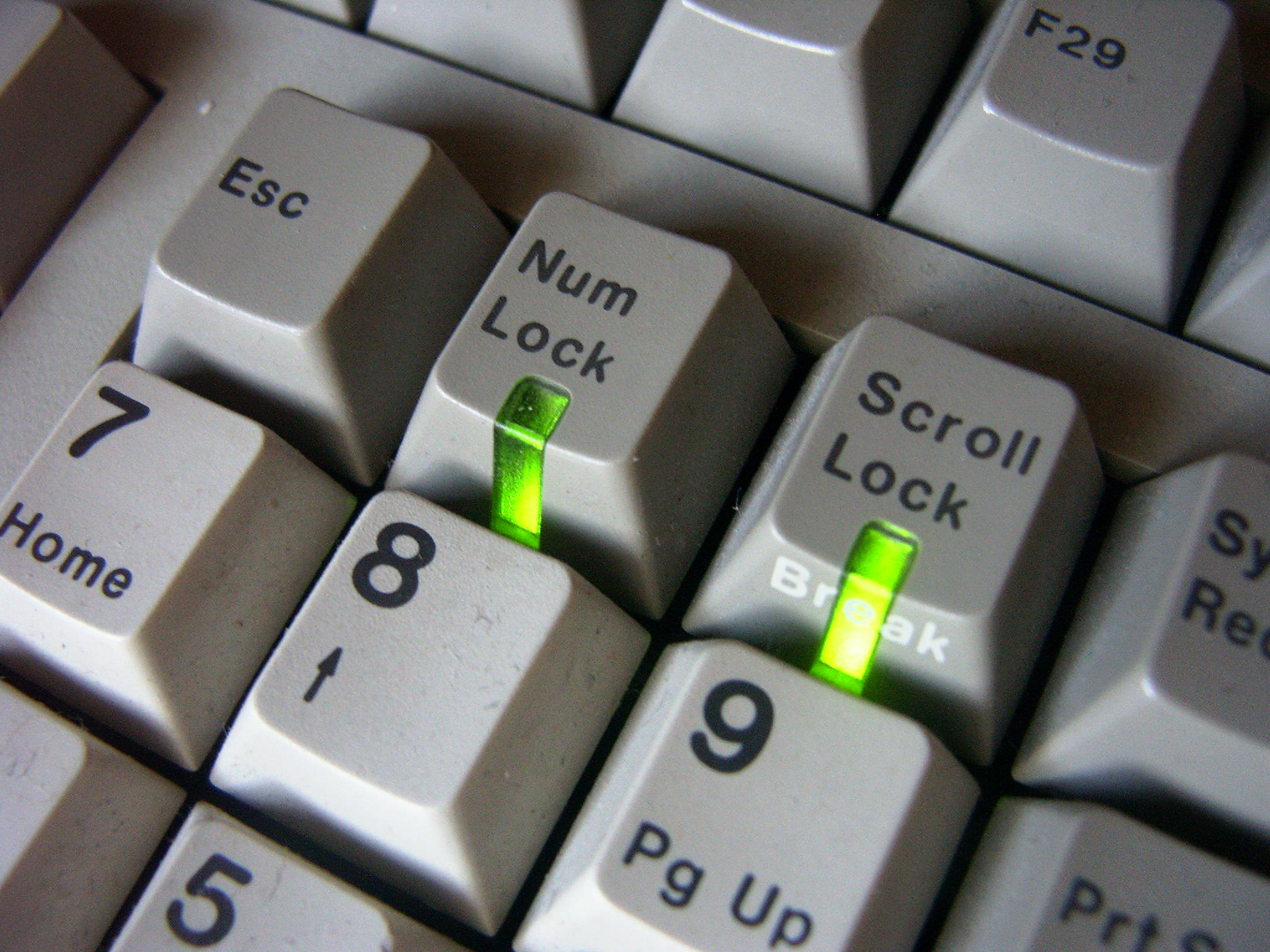 NCR keyboard with Num Lock and Scroll Lock keys with built-in light.